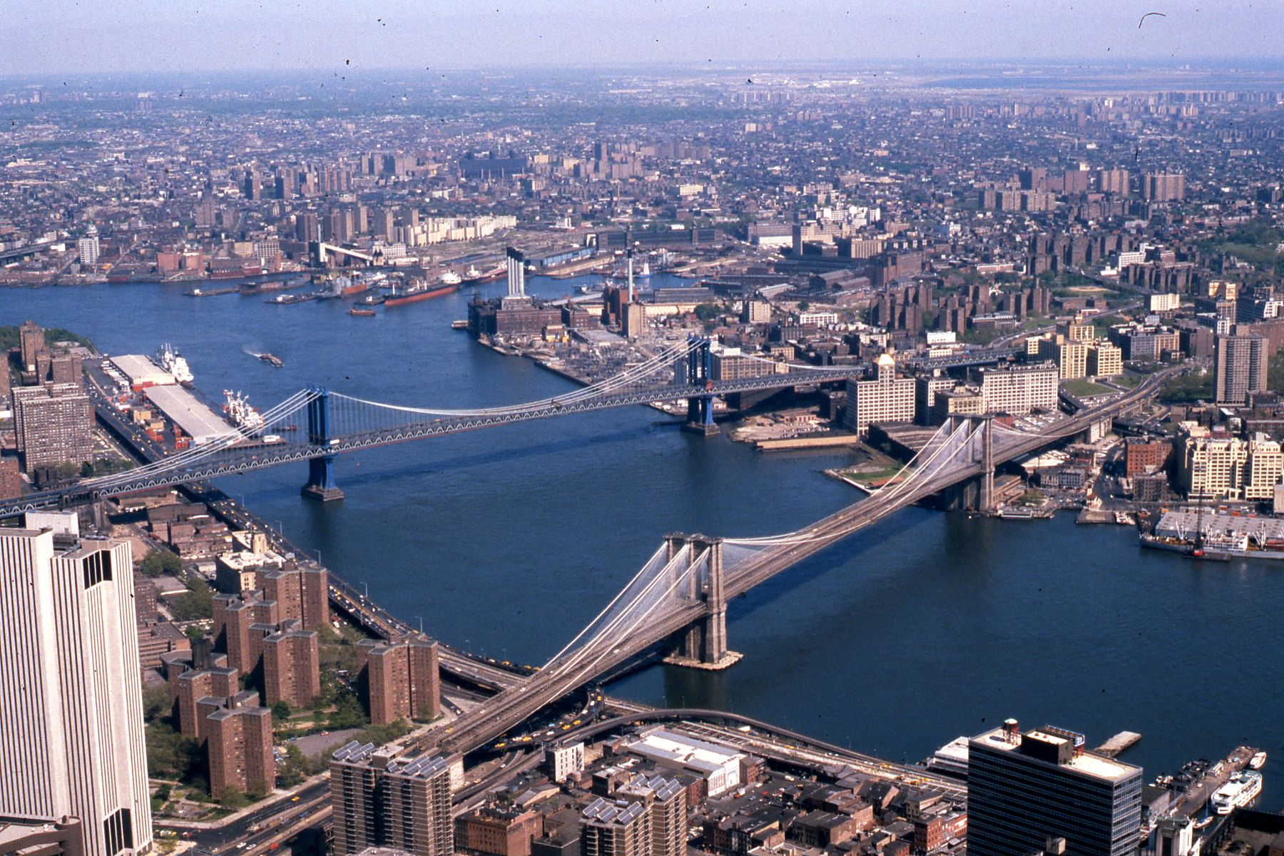 Manhattan and Brooklyn bridges on the East River, New York City, with Queens and Manhattan at top and bottom, 1981. For Bridges and tunnels in New York City. Other information Photo by George Garrigues.